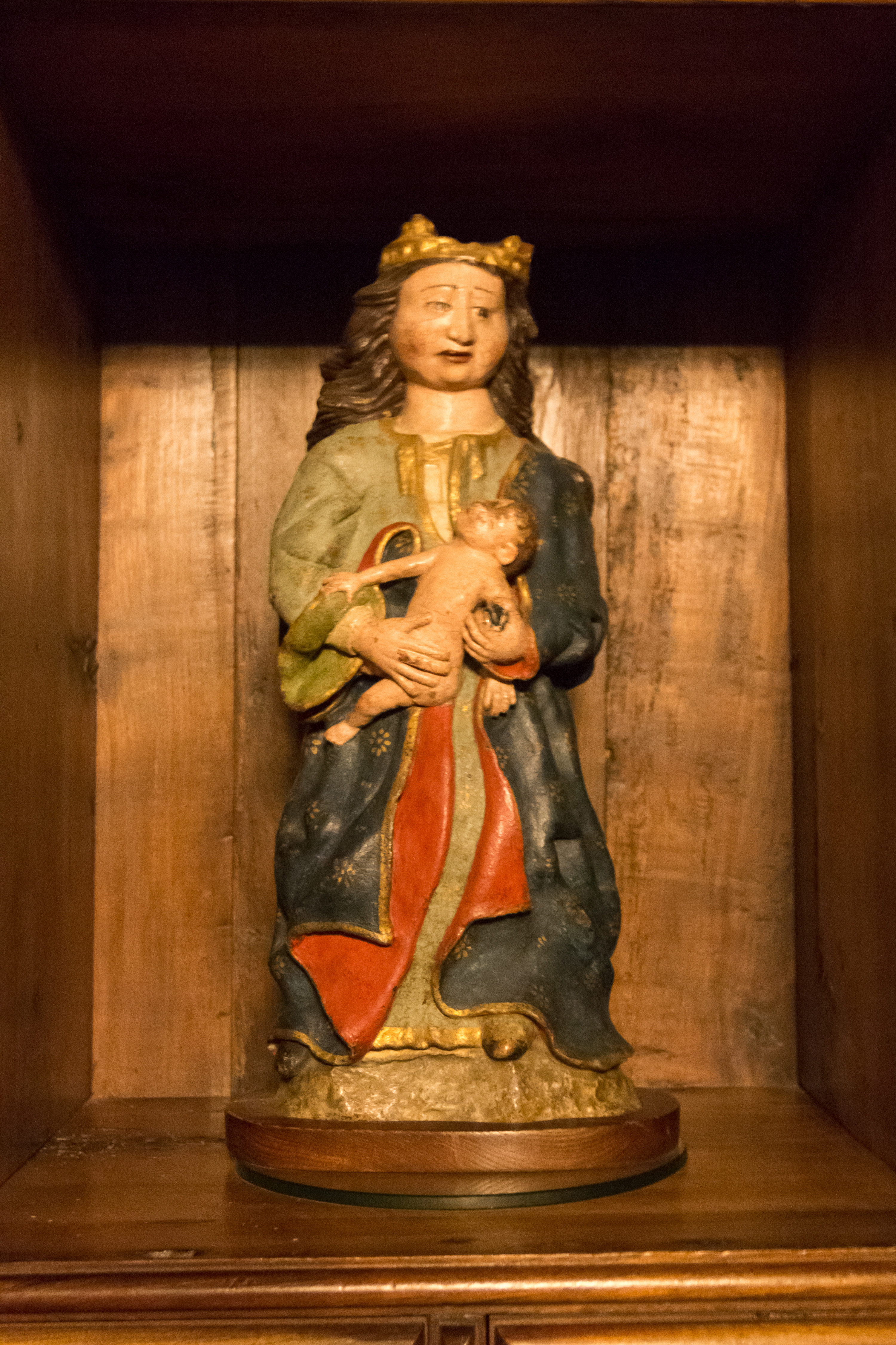 Virgin with Child (12th c).